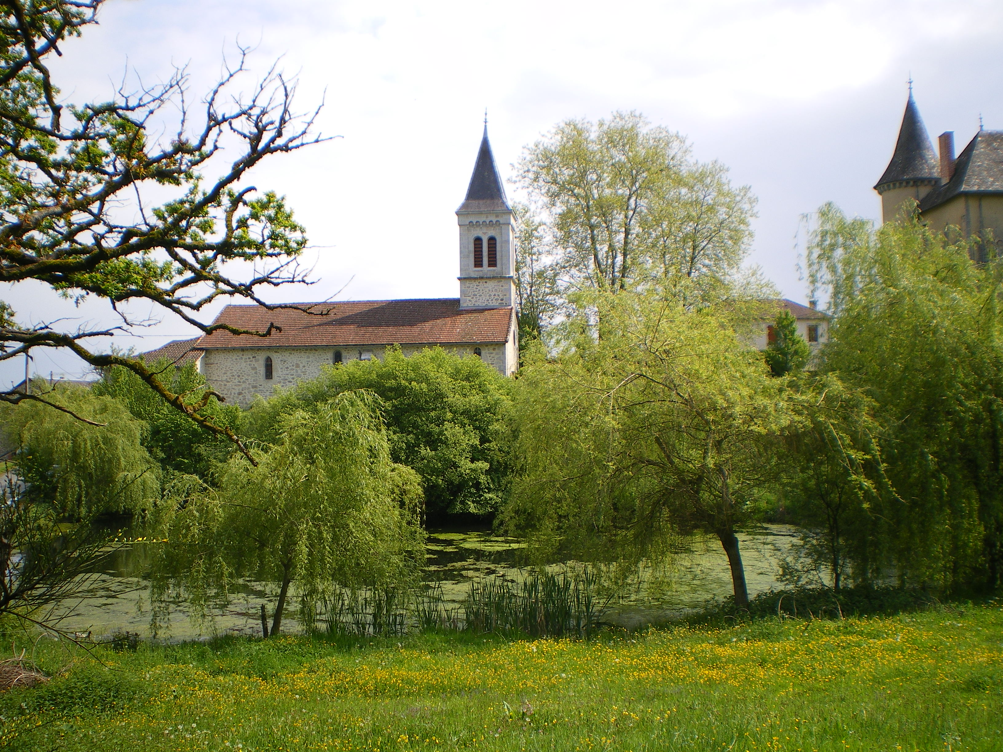 Bessonies church, Bessonies, Lot, France